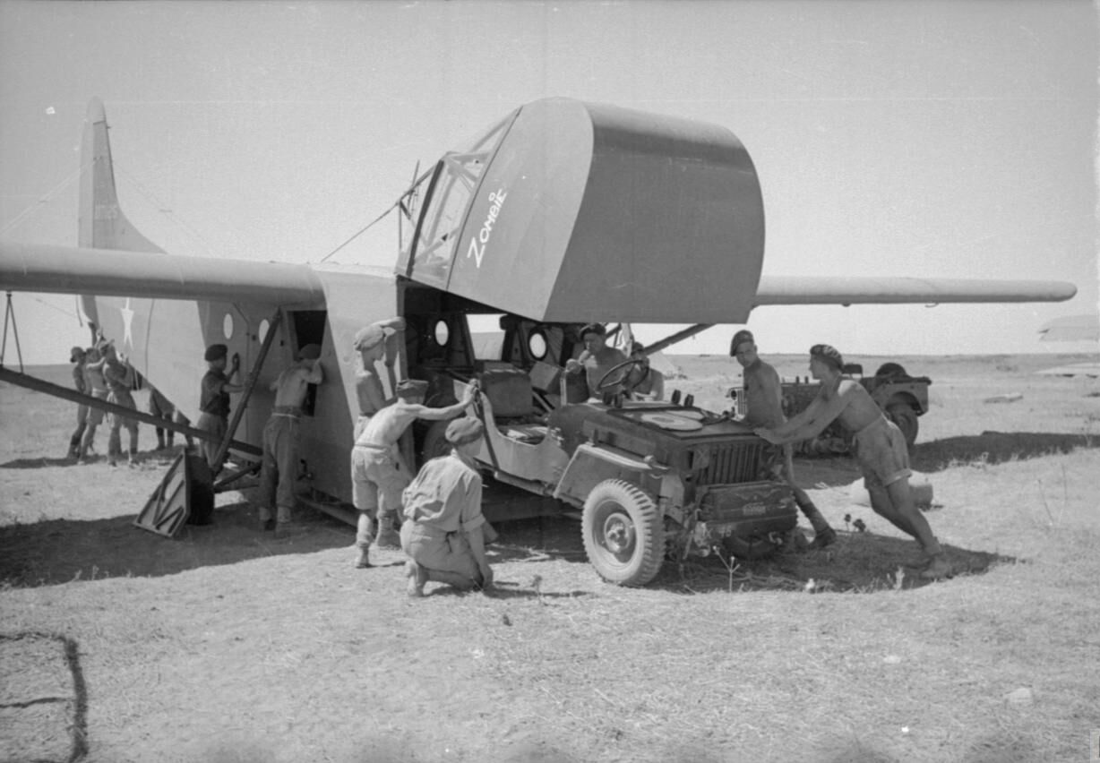 THE CAMPAIGN IN SICILY 1943. Planning and Preparations January - July 1943: A jeep is loaded onto an American WACO CG-4A glider.